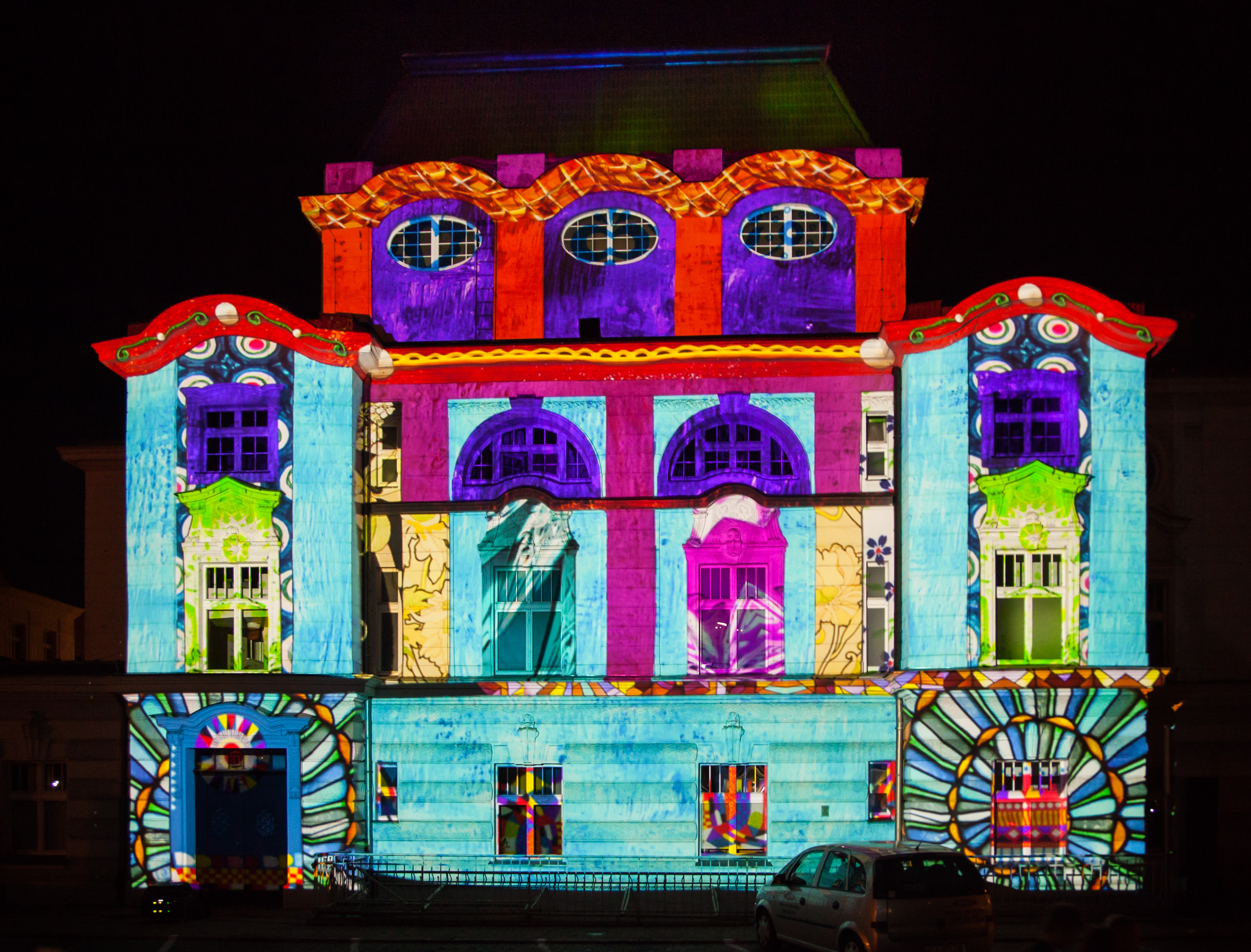 Light Painting mapping on Horzyca Theatre in Toruń, Poland. Bella Skyway Light Festival.